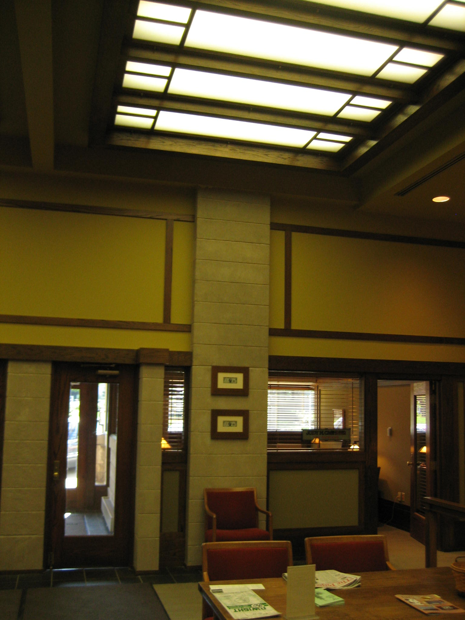 Frank L. Smith Bank, Dwight, Illinois, USA. Designed by American architect Frank Lloyd Wright. Frank L. Smith Bank, Dwight, Illinois, USA. Designed by American architect Frank Lloyd Wright. Interior.